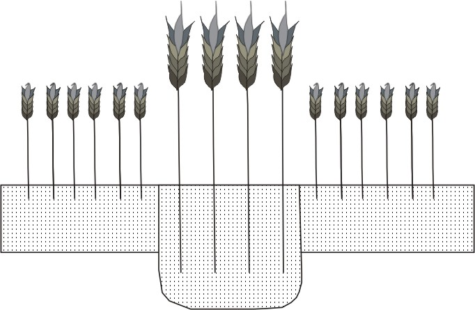 Explanation of a process of emergence of a positive crop-marks over archaeological feature. Designed by Weronika Kobylińska.